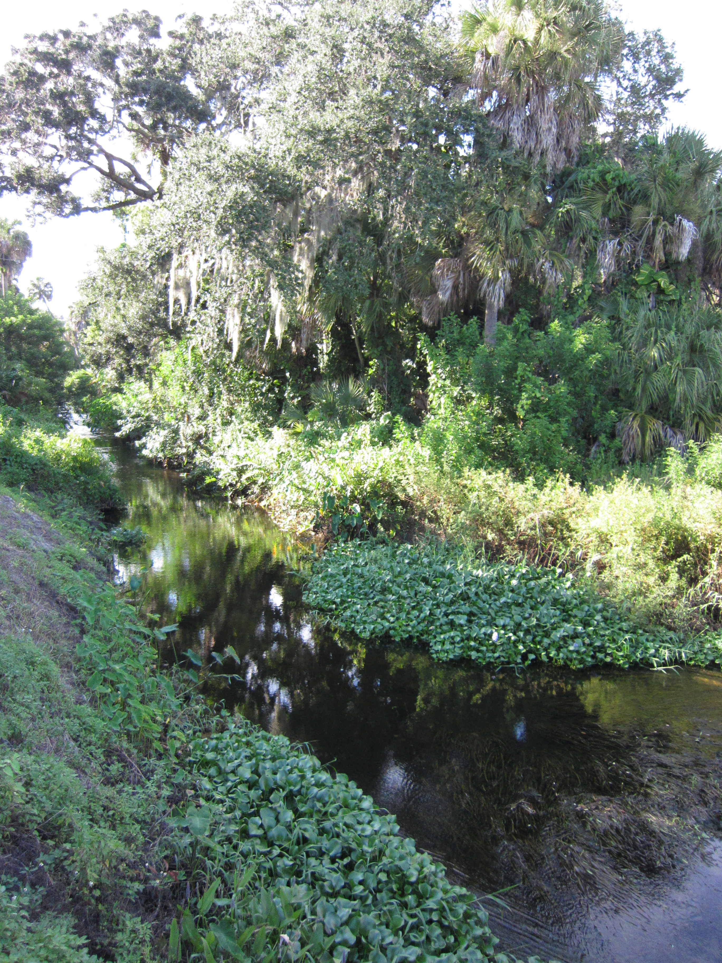 Section of Crane Creek near the intersection with Country Club Road, just south of the intersection of Country Club Road and Ruffner Road in Melbourne, Florida.